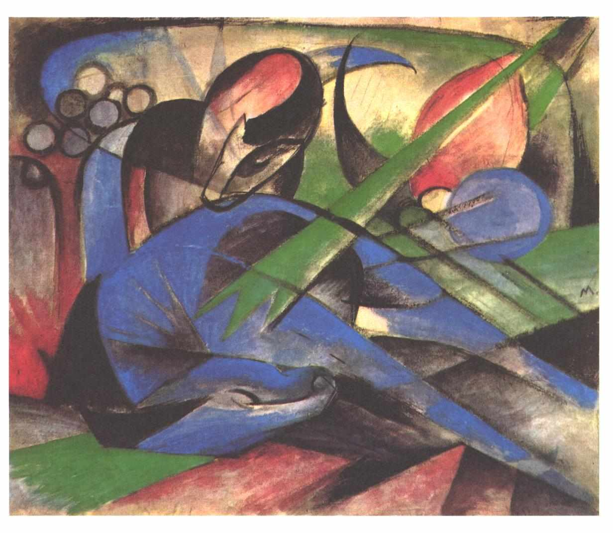 Dreaming horse